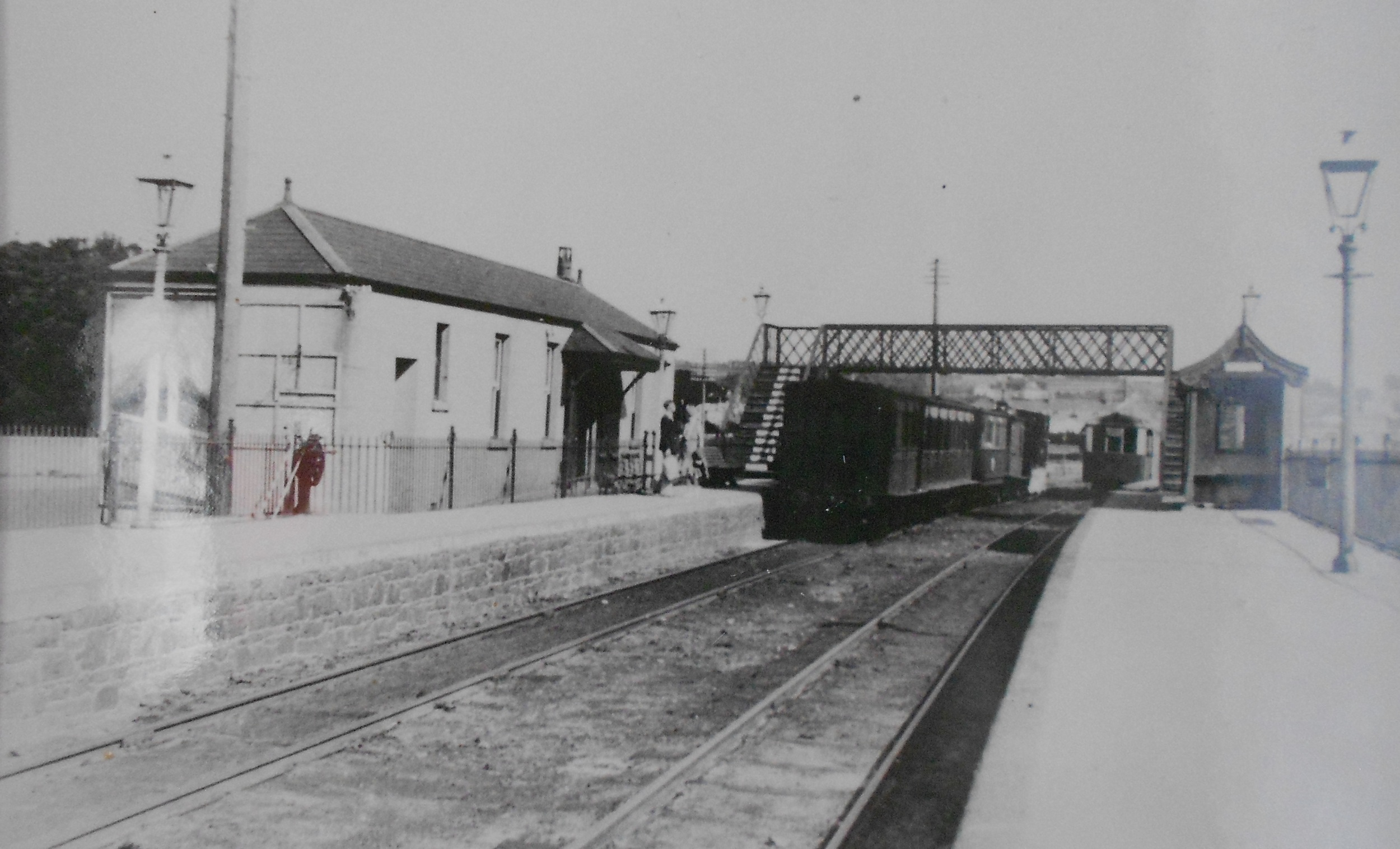 Old photograph of Millbrook railway station, Jersey. The photograph is dated (by hand annotation) 1919. It depicts buildings constructed in 1912, when the station was relocated.